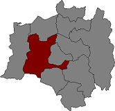 Location of Porqueres in Pla de l'Estany